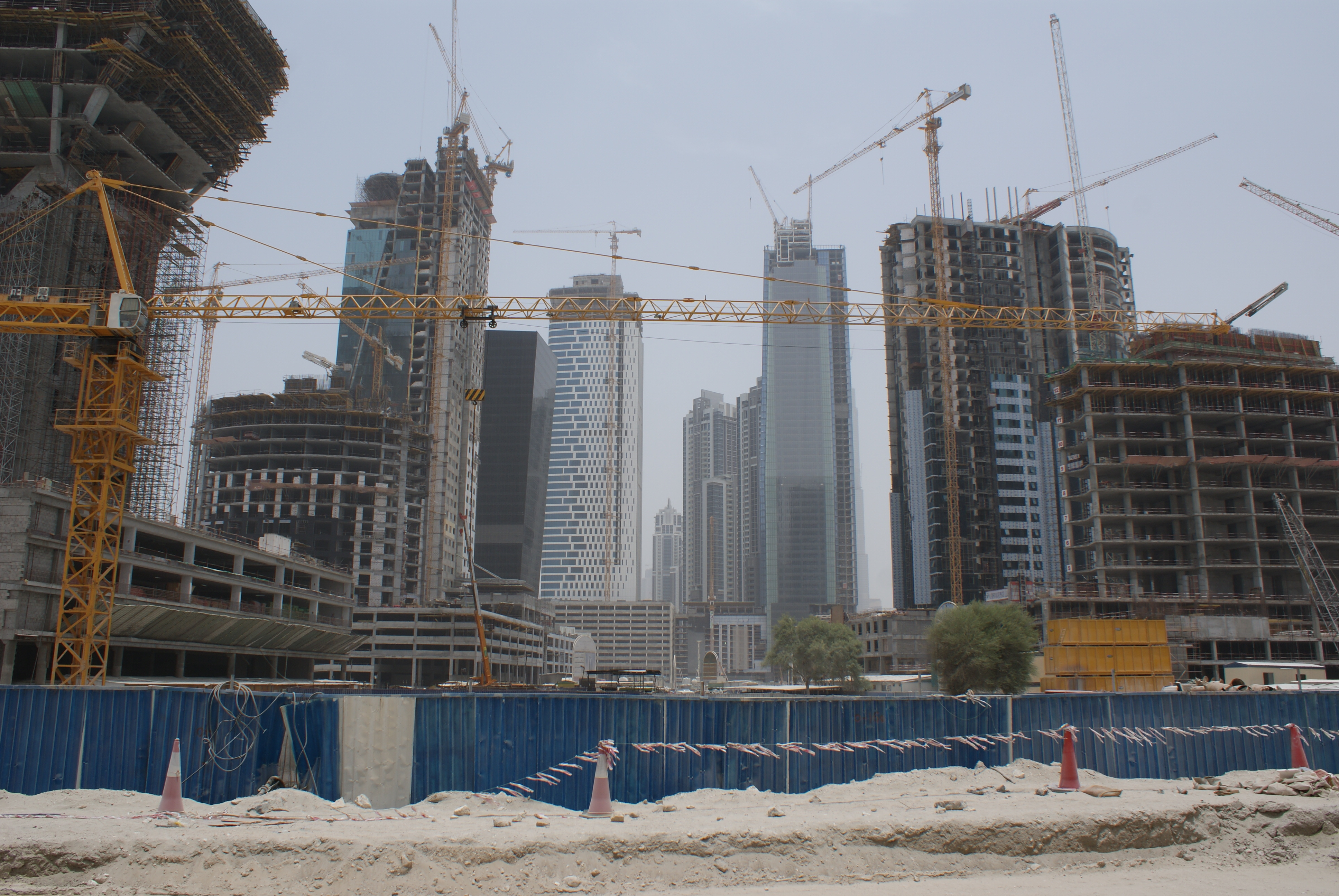 Business Bay during construction in Dubai.